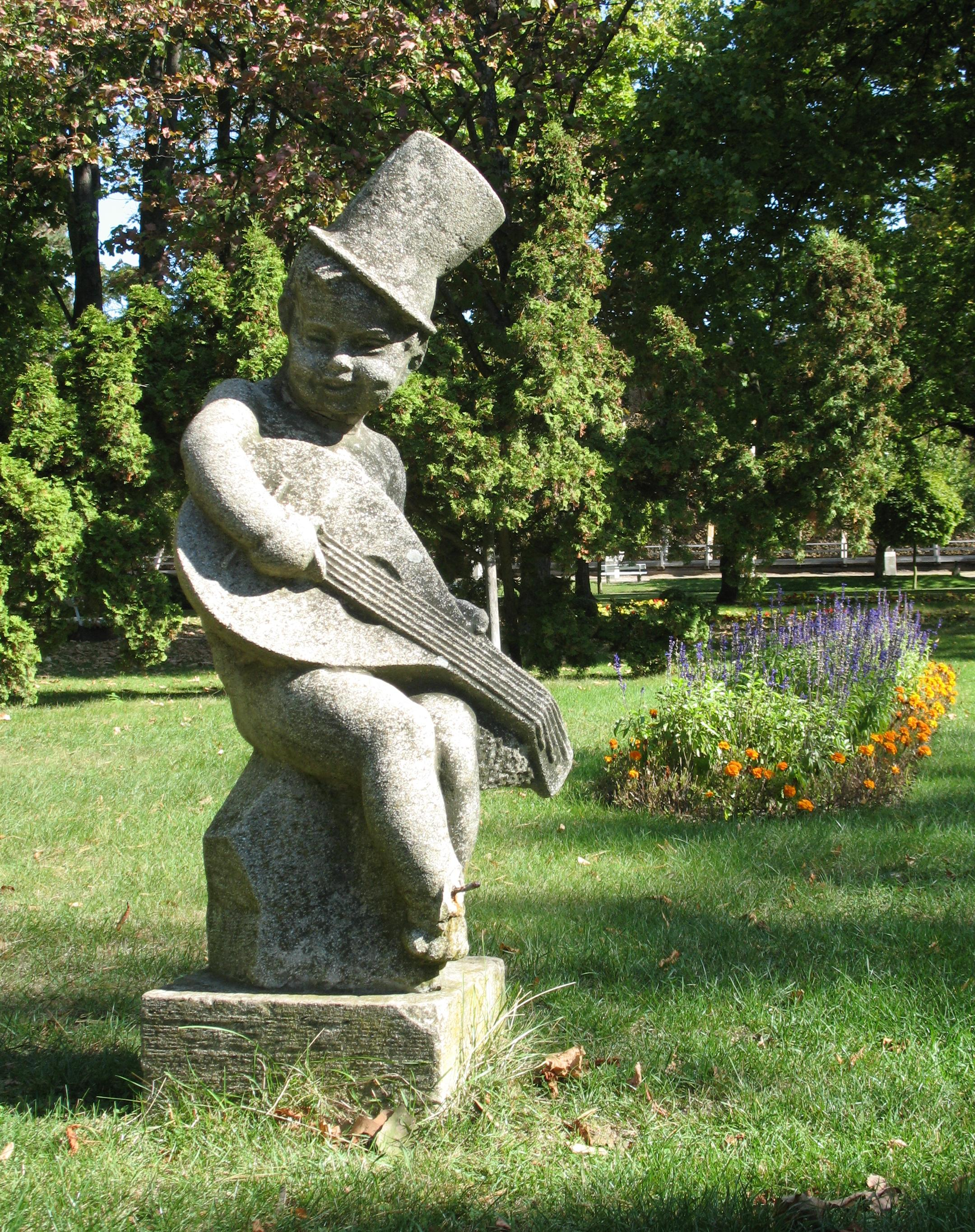 Spa gardens in Bad Dürrenberg in Saxony-Anhalt, Germany